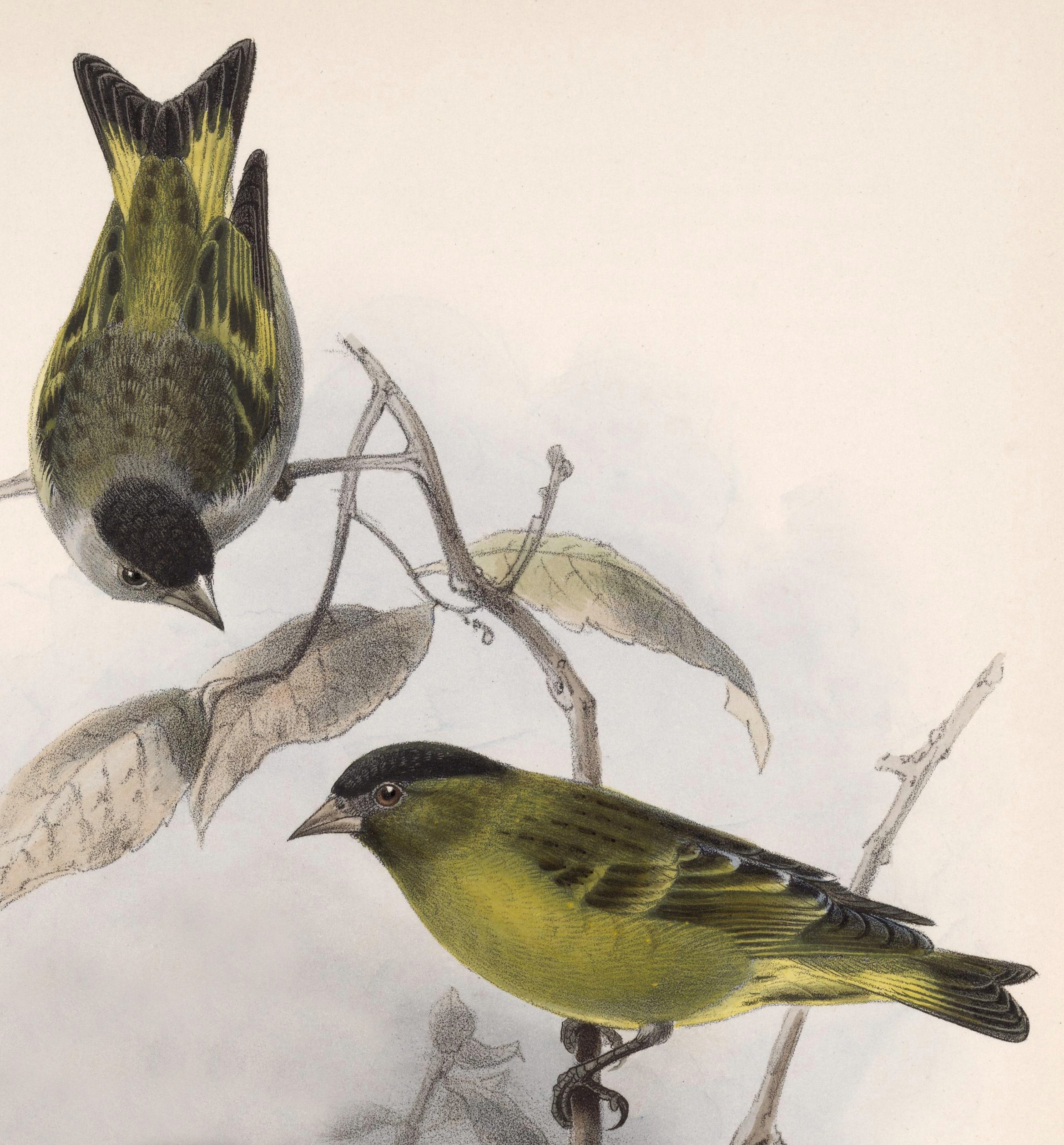 « Chrysomitris atriceps » = Carduelis atriceps (Black-capped Siskin)